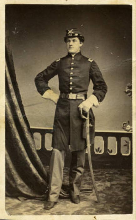 Photograph of Edward Bancroft Williston, approximately 1860 - 1864.